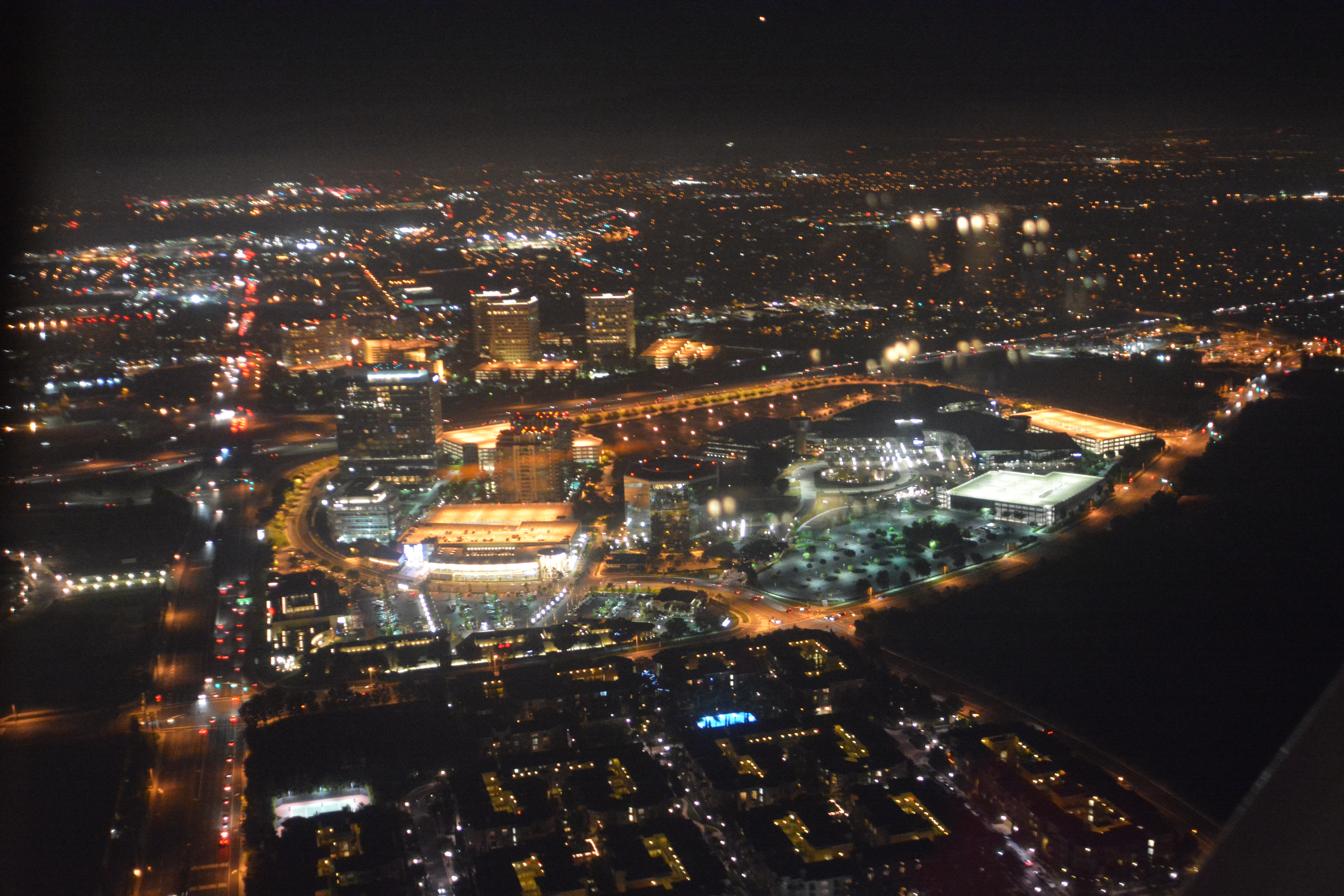 LA Fitness Signature club Irvine CA photo D Ramey Logan